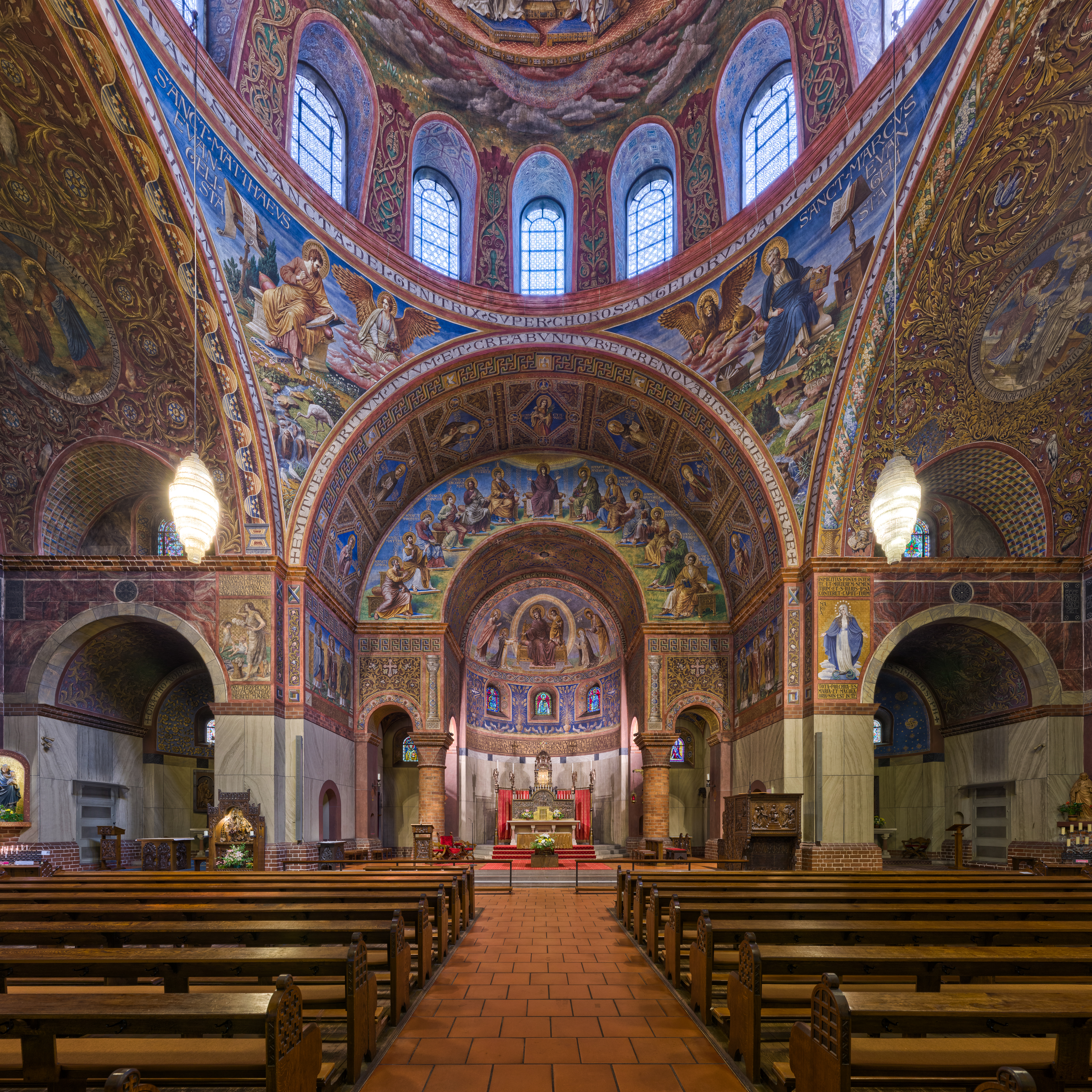 Interior of the roman-catholic Rosenkranzbasilika ("Rosary Basilica") in Berlin-Steglitz. The basilica was built in 1899/1900 according to plans by Christoph Hehl. The church was painted mainly by Friedrich Stummel. After his death the paintings were completed by Theodor Nüttgens and Karl Wenzel.